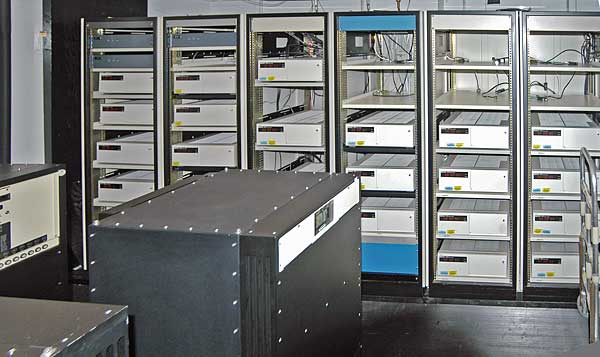 US Naval Observatory's (USNO) Master Clock Ensemble, Washington D.C., made up of a large number of Symmetricom 5071A cesium beam clocks (rack in background). This provides the time standard for the US military. The large black object in the foreground is a Symmetricom (formerly Sigma-Tau) MHM-2010 active hydrogen maser.